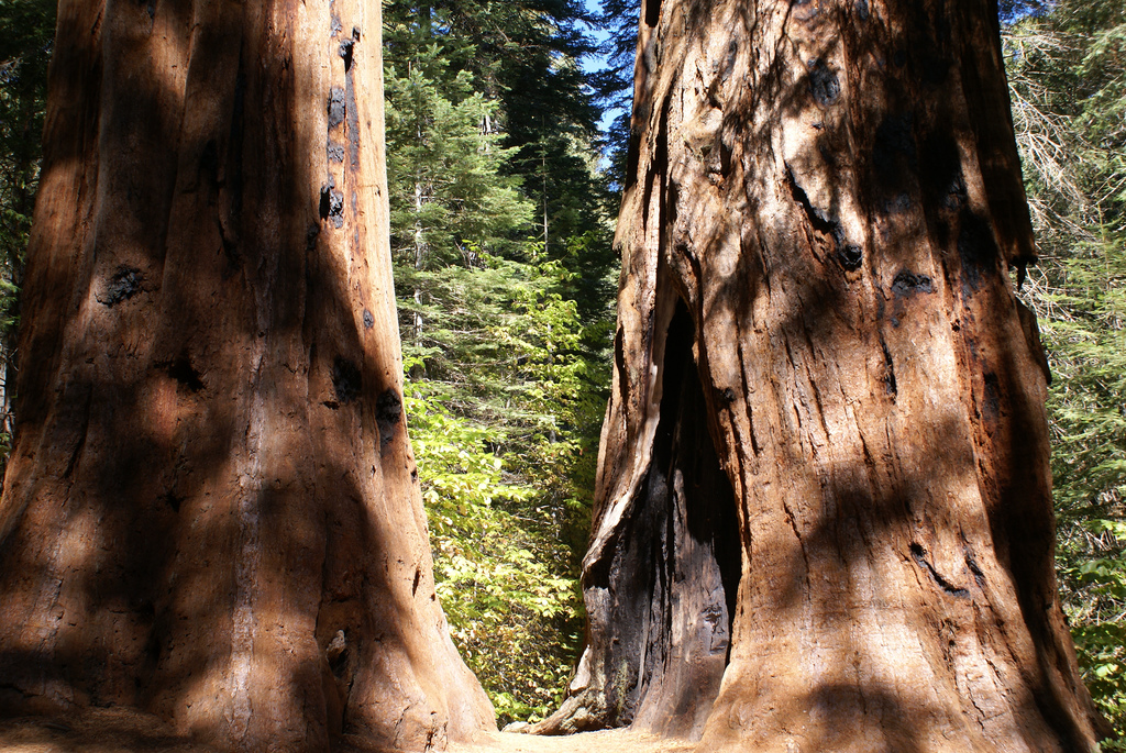 Giant Sequoia in the Merced Grove, Yosemite National Park.